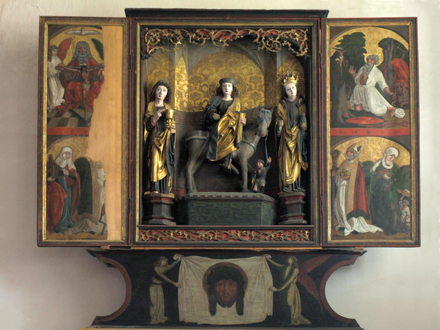 Meissen, Saxony (Germany), church St. Afra, Altar St. Martin, photo 2012